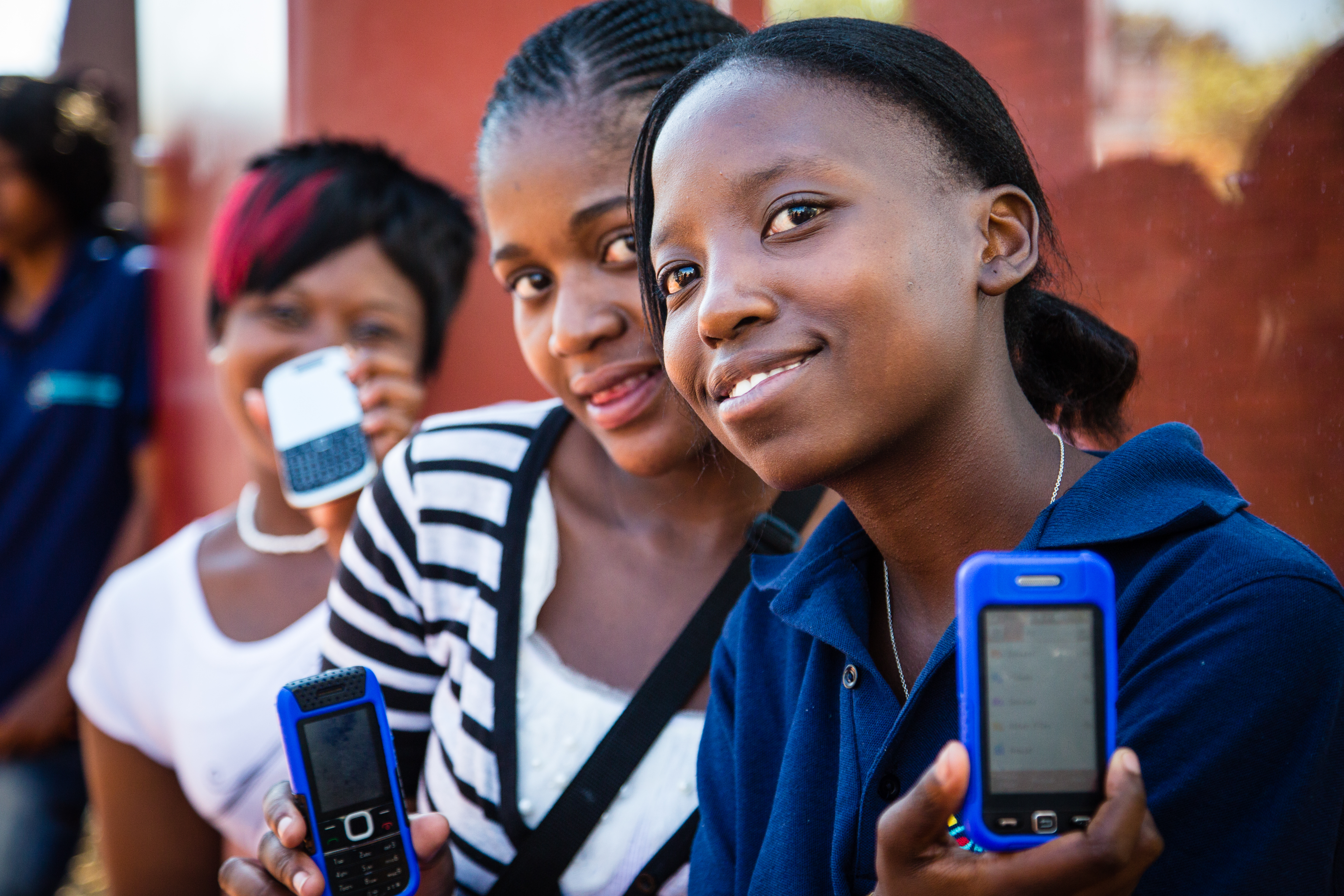 Wikipedia Zero Campaign in Africa